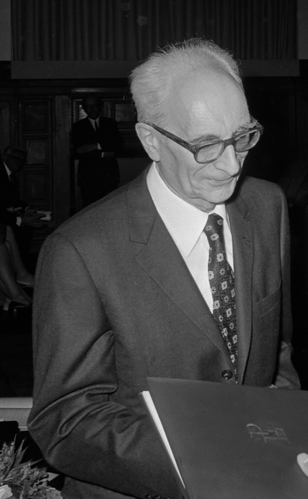 Anthropologist Claude Lévi-Strauss